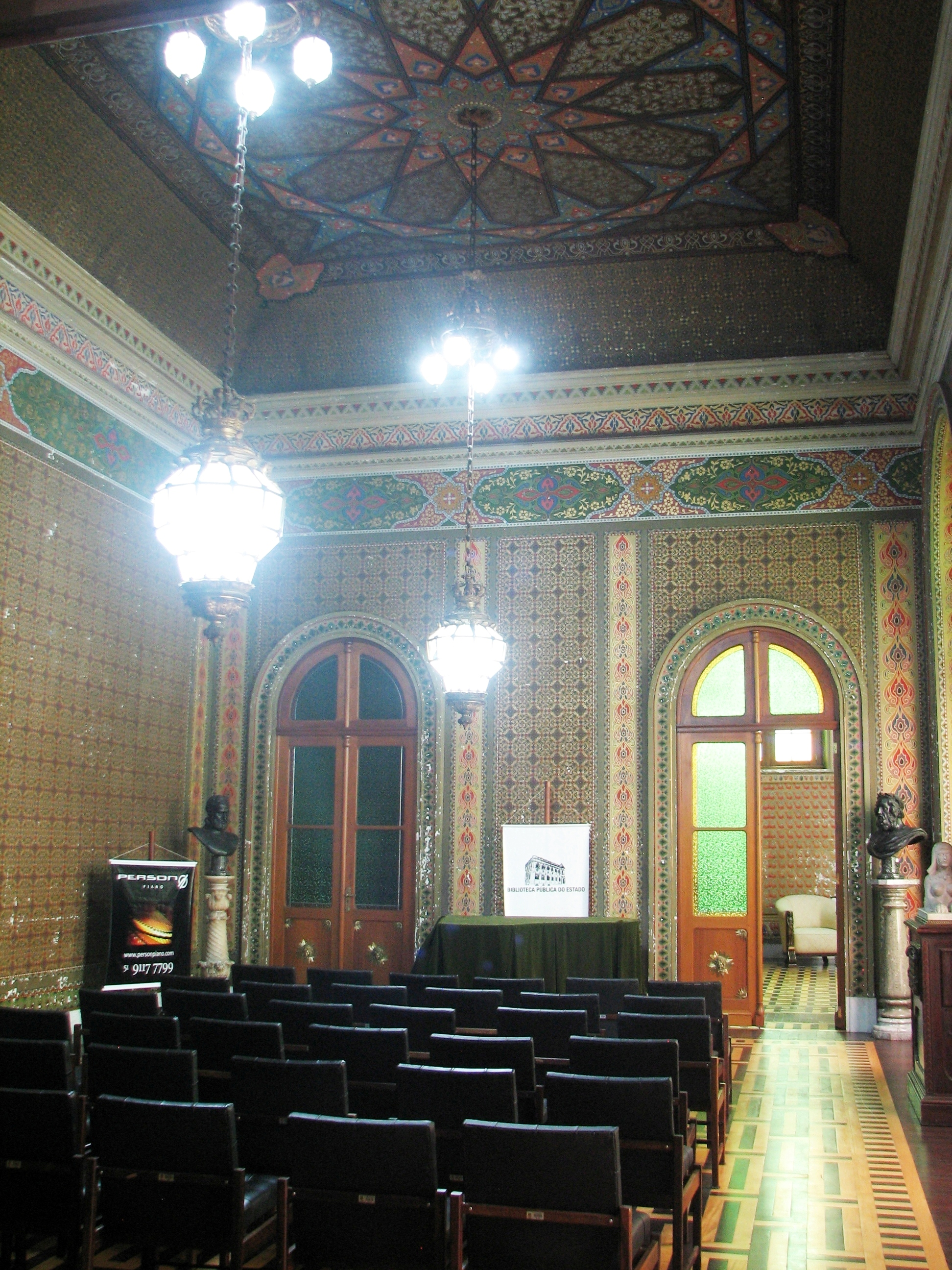 Library in Porto Alegre - Brazil.